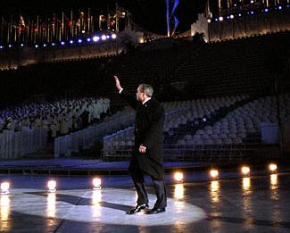 President George W. Bush waves to the crowd as he walks across the ice during the opening ceremonies for the 2002 Winter Olympic Games in Salt Lake City, Utah